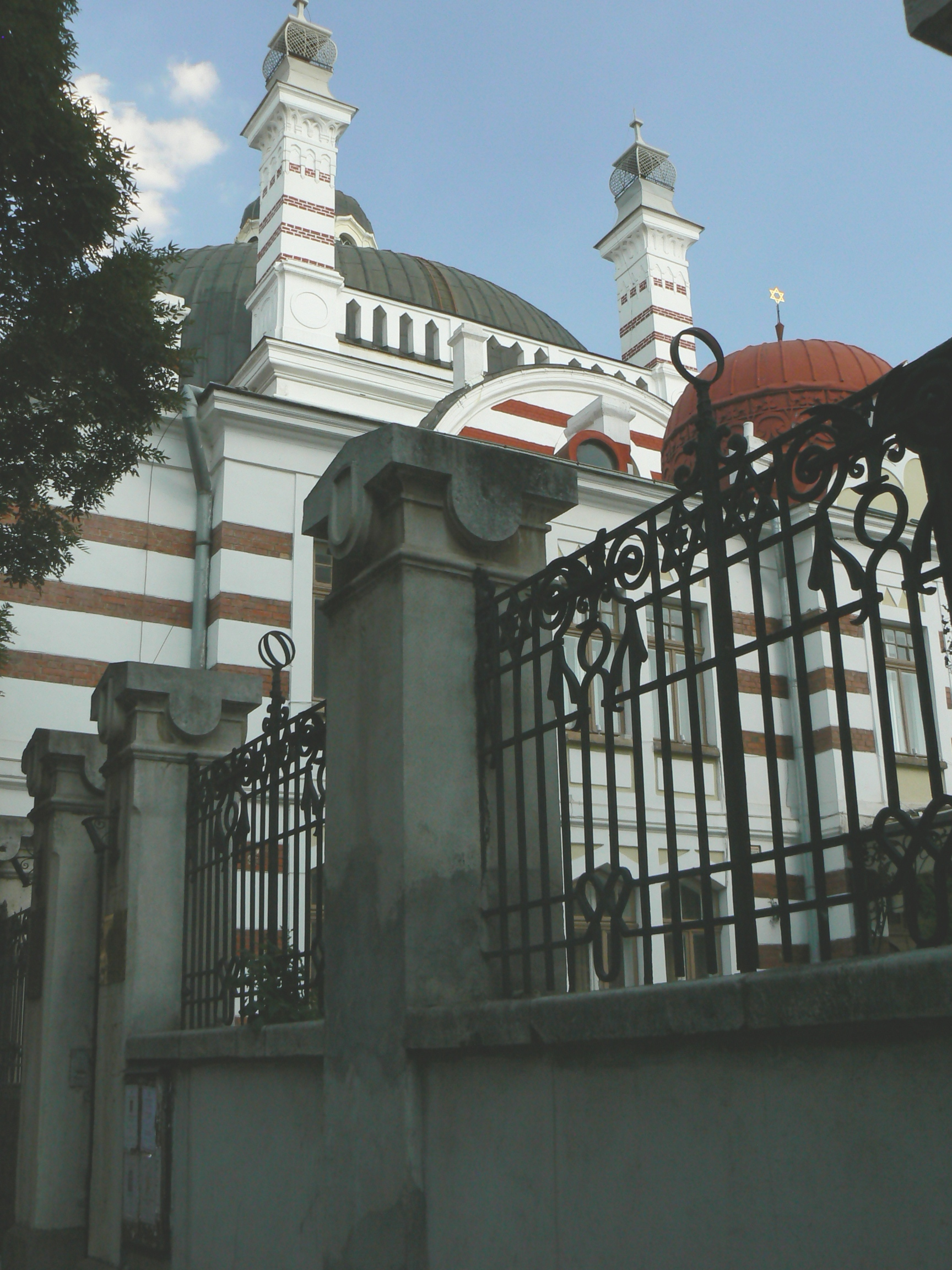 Building of the Synagogue in Sofia, Bulgaria